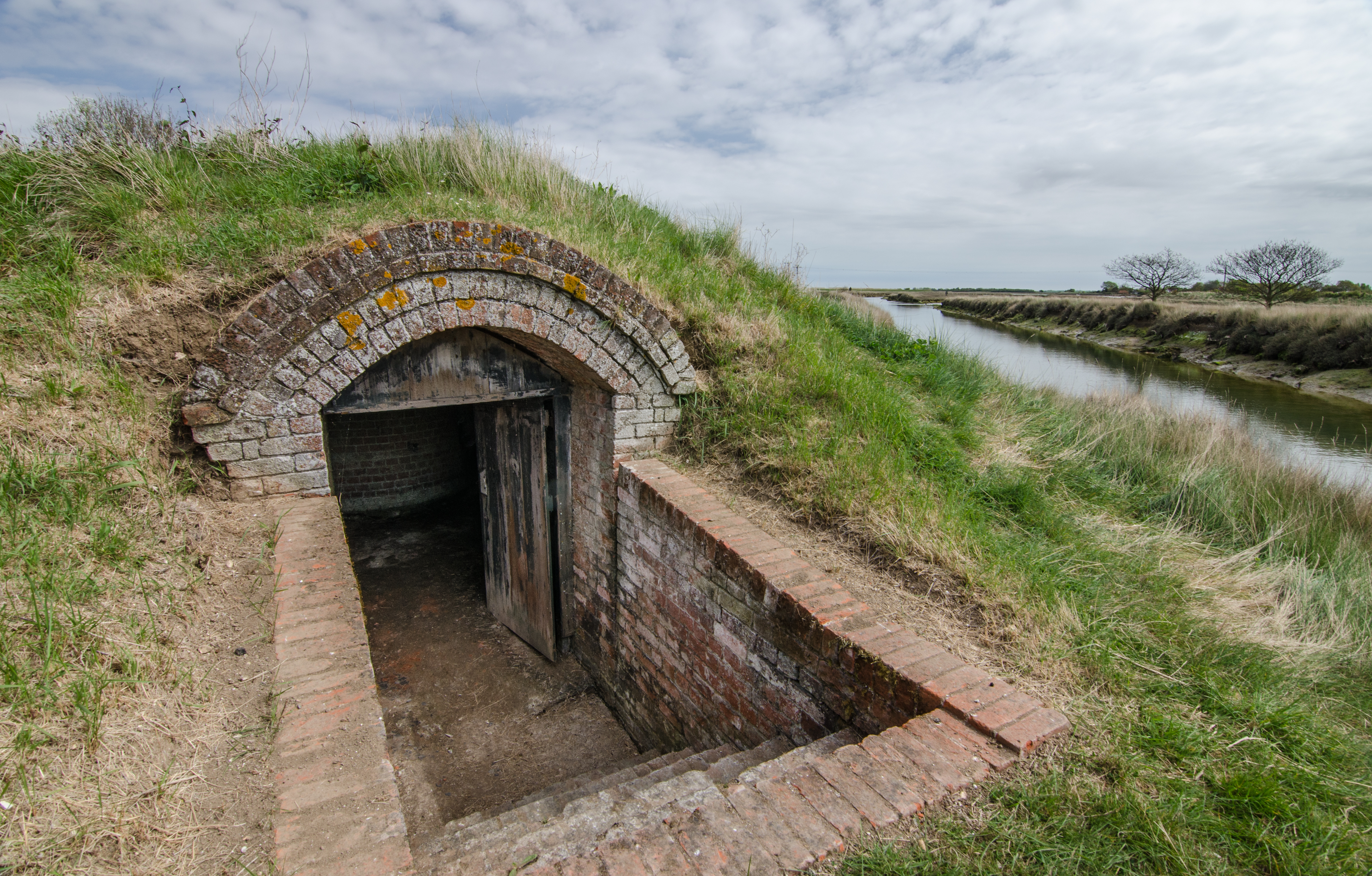 Beaumont Quay, Hamford Water: a 19th century quay and lime kiln Wikidata has entry Q17666040 with data related to this item.